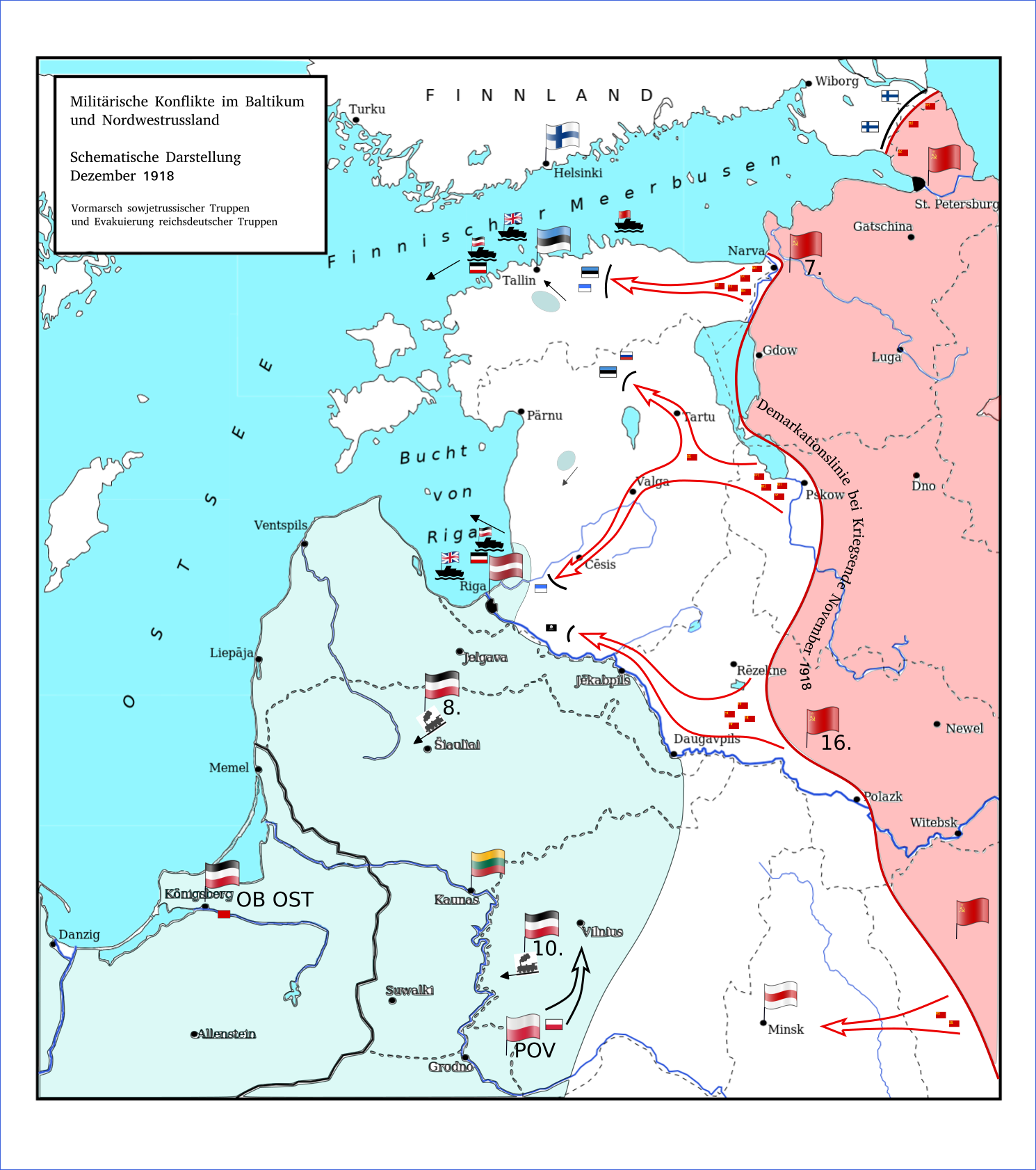 map of armed conflicts in the Baltics and North-West-Russia December 1918